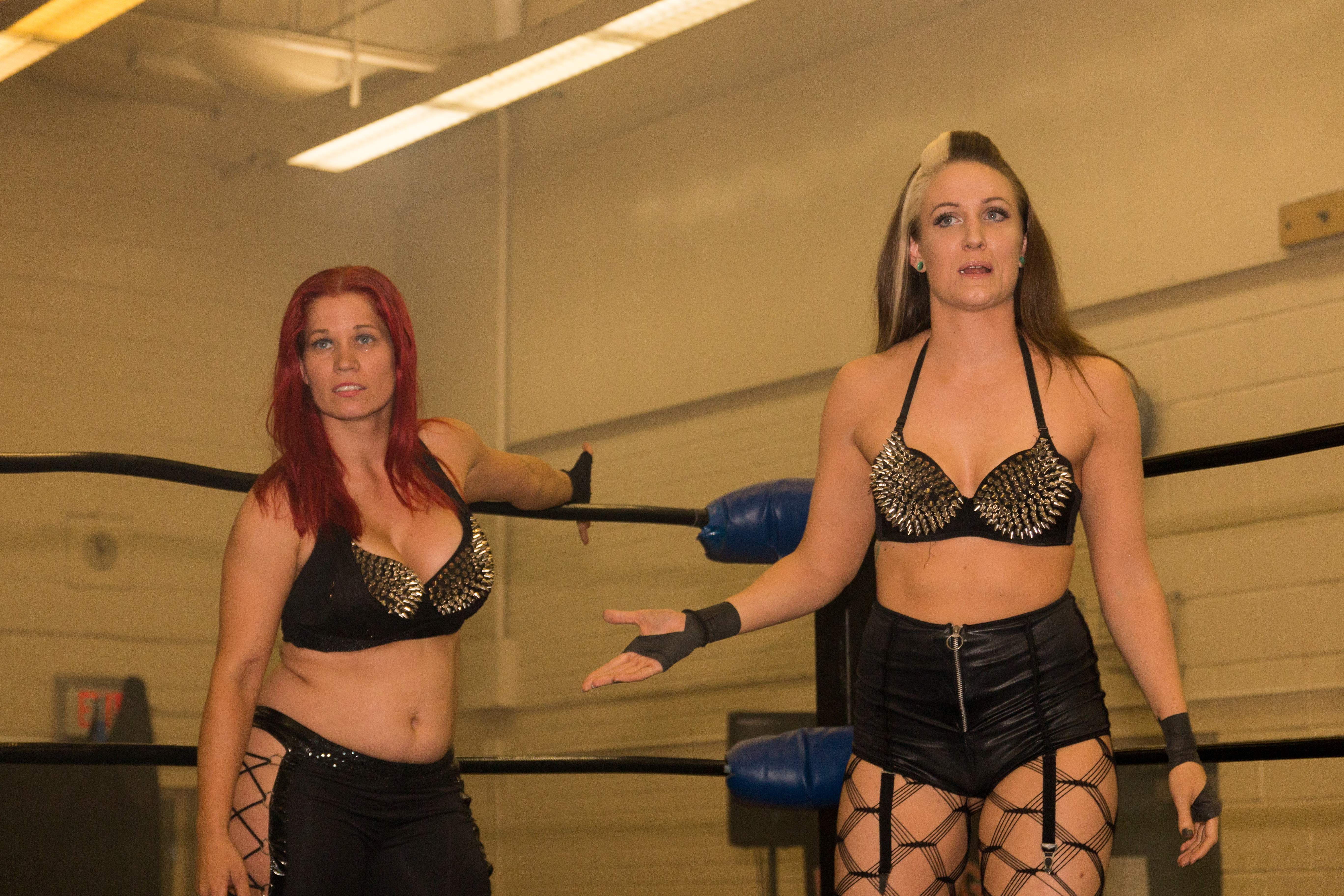 The Midwest Militia tag team - Sassy Stephie (left) and Allysin Kay - in the ring at Smash Wrestling's Canusa 2015 show in Etobicoke, ON